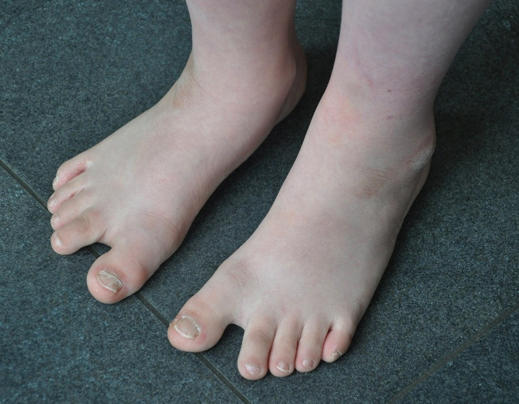 Feet of a 10 year old boy with Down Syndrome, with the typical large space between the large toe and second toe.